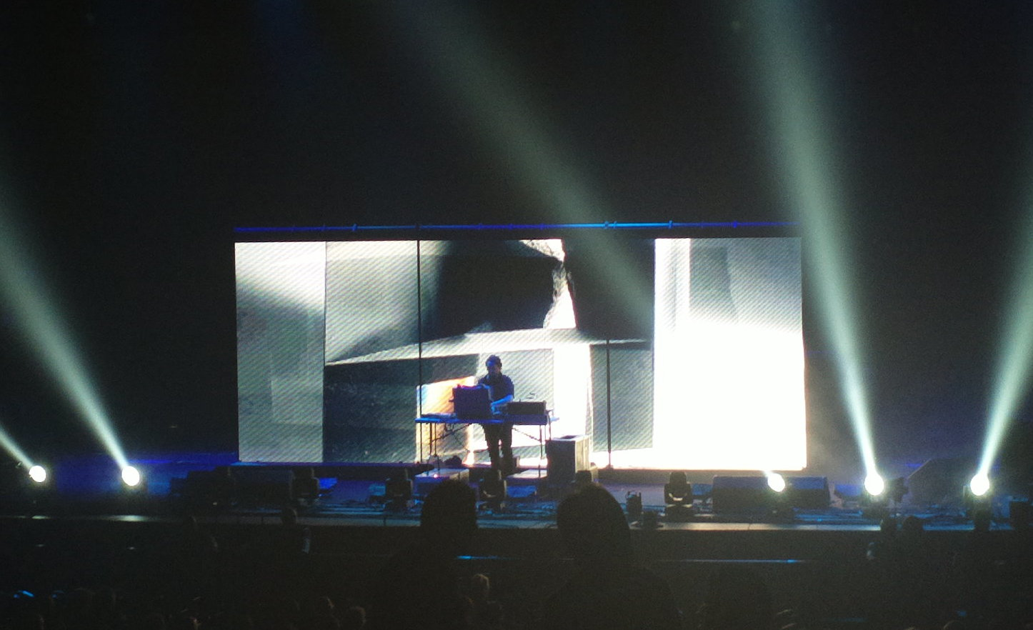 OPN opening for NIN